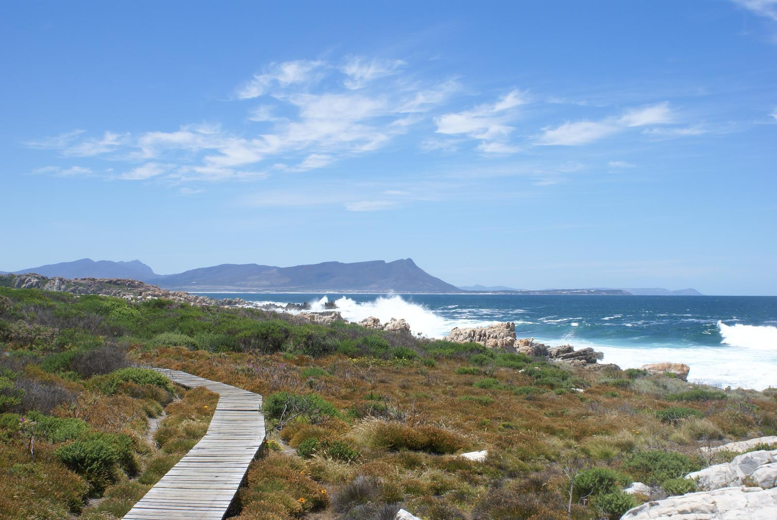 Wooden path at Kleinmond Nature Reserve